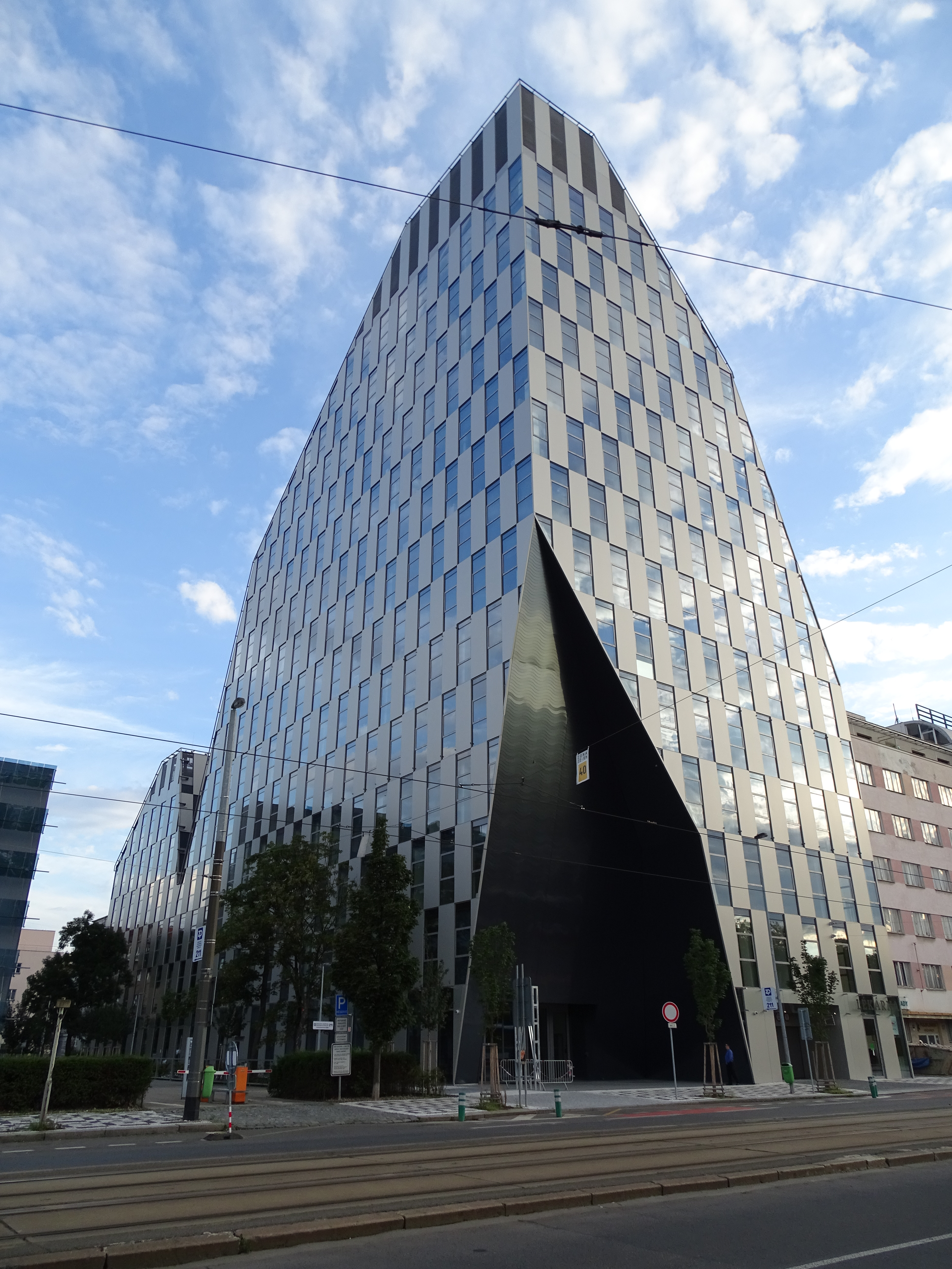 Prague-Vinohrady, Czech Republic. Vinohradská 2577/178, Crystal.